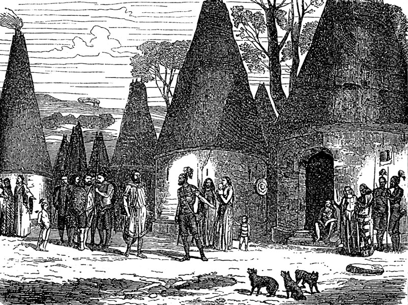 First Slavs between the Danube and Balkans. newspaper xylography. Српски (ћирилица): Први Словени између Дунава и Балкана. новинска ксилографија.